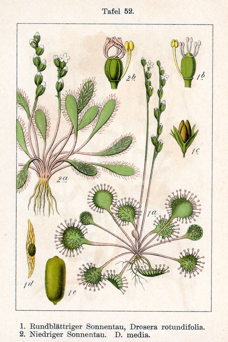 1. Drosera rotundifolia L. 2. Drosera intermedia Hayne, syn. Drosera media E.H.L.Krause Original Description 1. Rundblättriger Sonnentau, Drosera rotundifolia 2. Niedriger Sonnentau, Drosera media